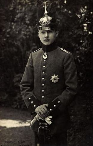 Joachim Ernst last duke of Anhalt